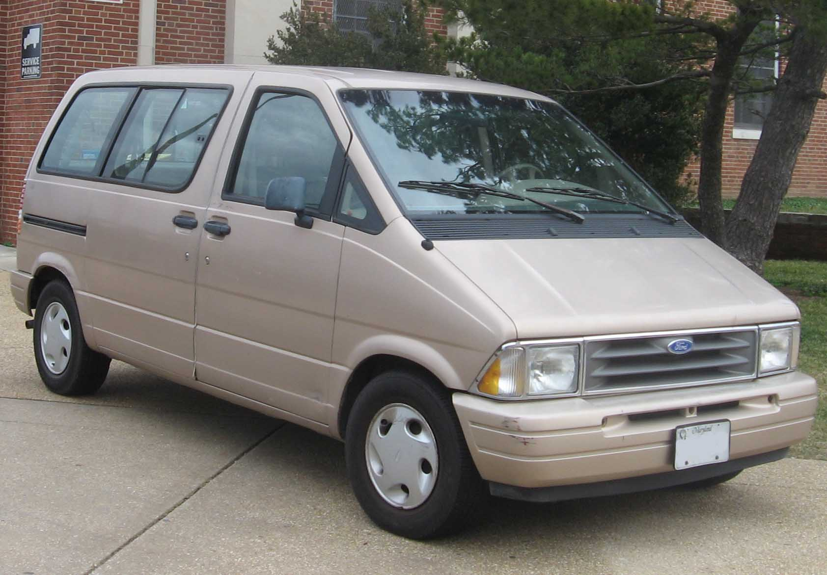 1993-1997 Ford Aerostar photographed in College Park, Maryland, USA.